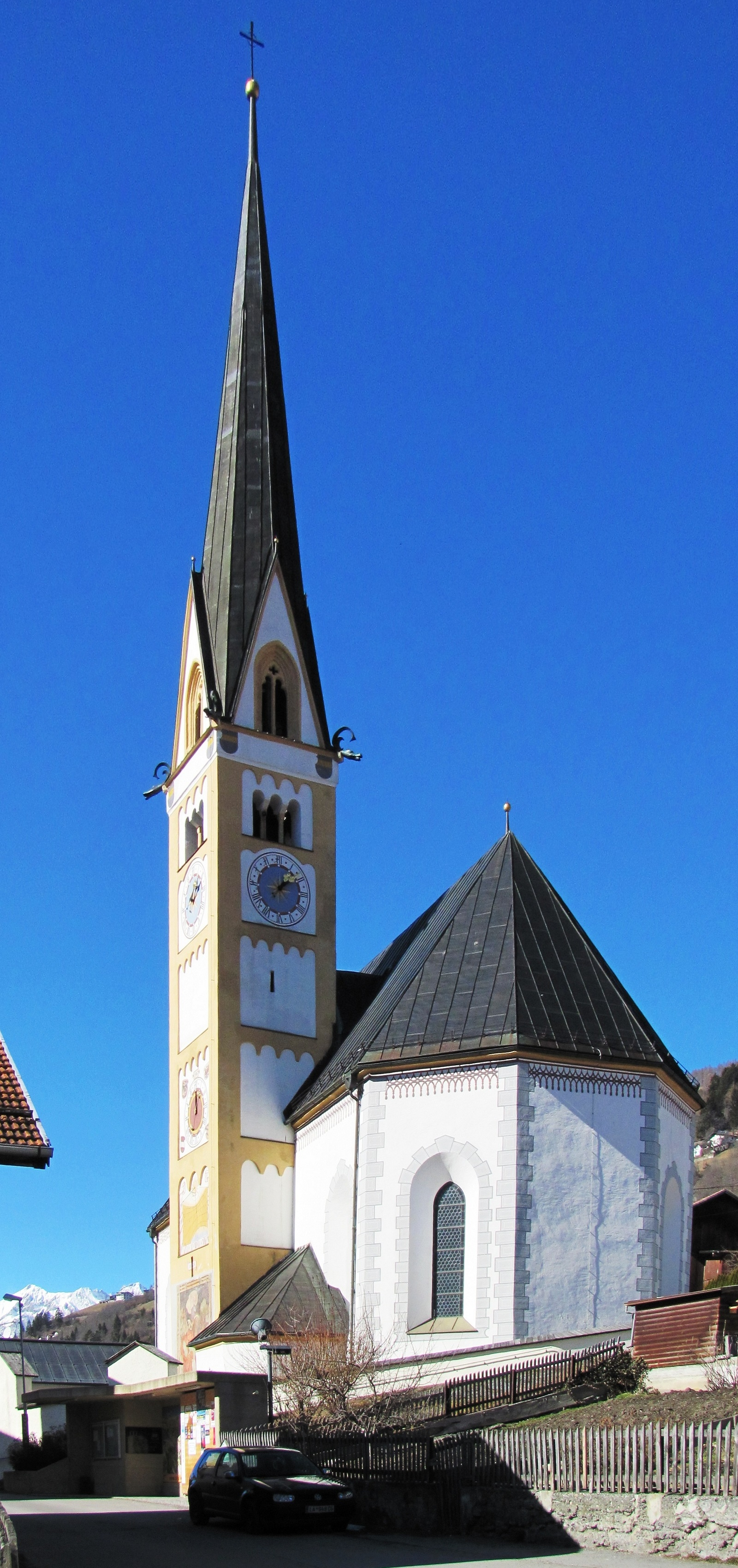 Alte Pfarrkirche, Mariä-Himmelfahrt-Kirche, Fließ, Gemeinde Fließ This media shows the remarkable cultural object in the Austrian state of Tyrol listed by the Tyrolean Art Cadastre with the ID 17746. (on tirisMaps, pdf, more images on Commons, Wikidata)